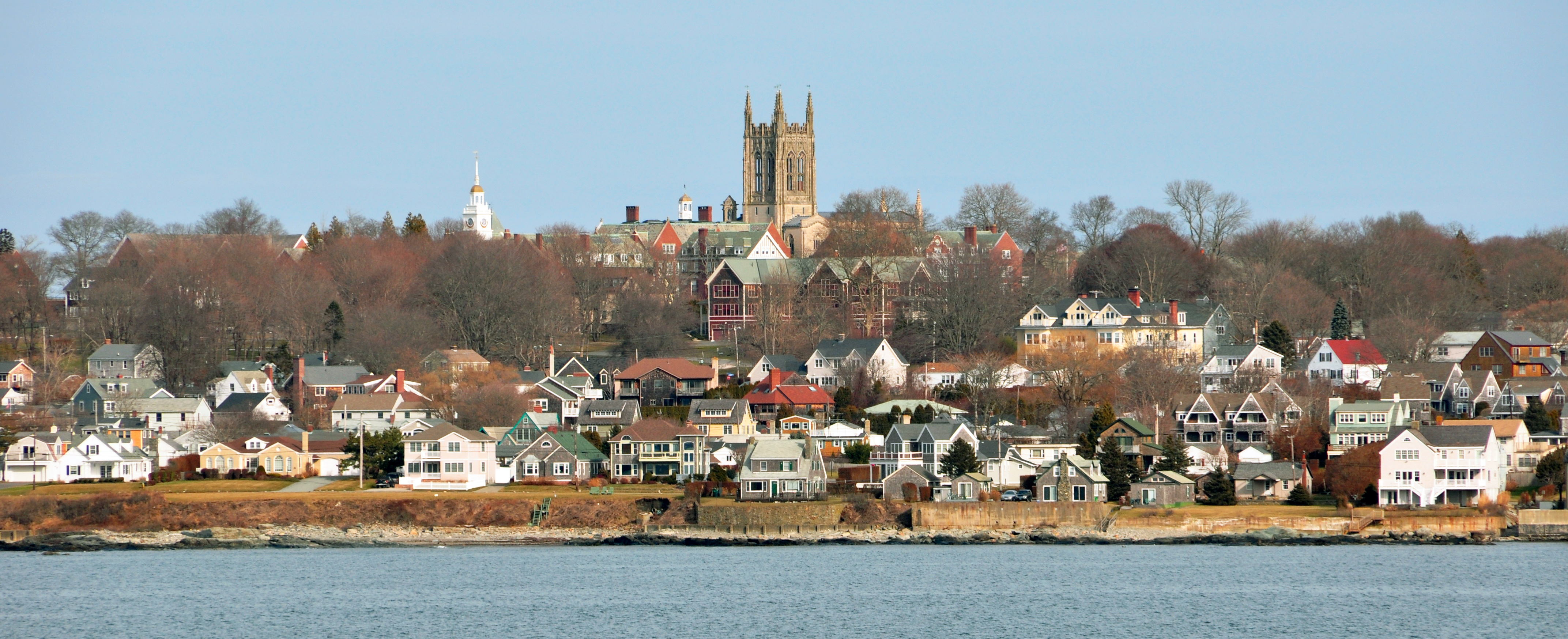 Newport Rhode Island Cliff Walk panorama 2010